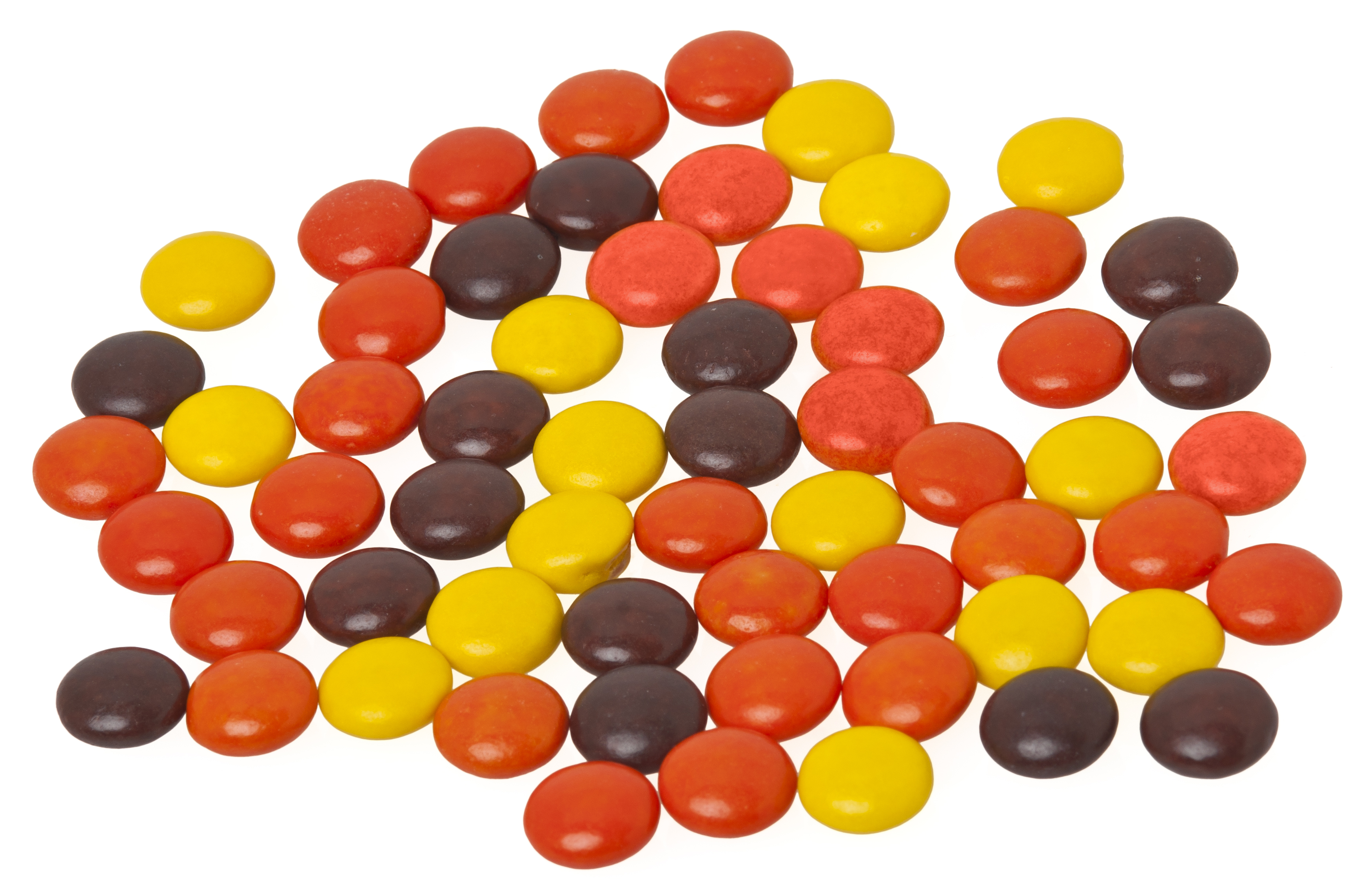 Loose Reese's Pieces candies.